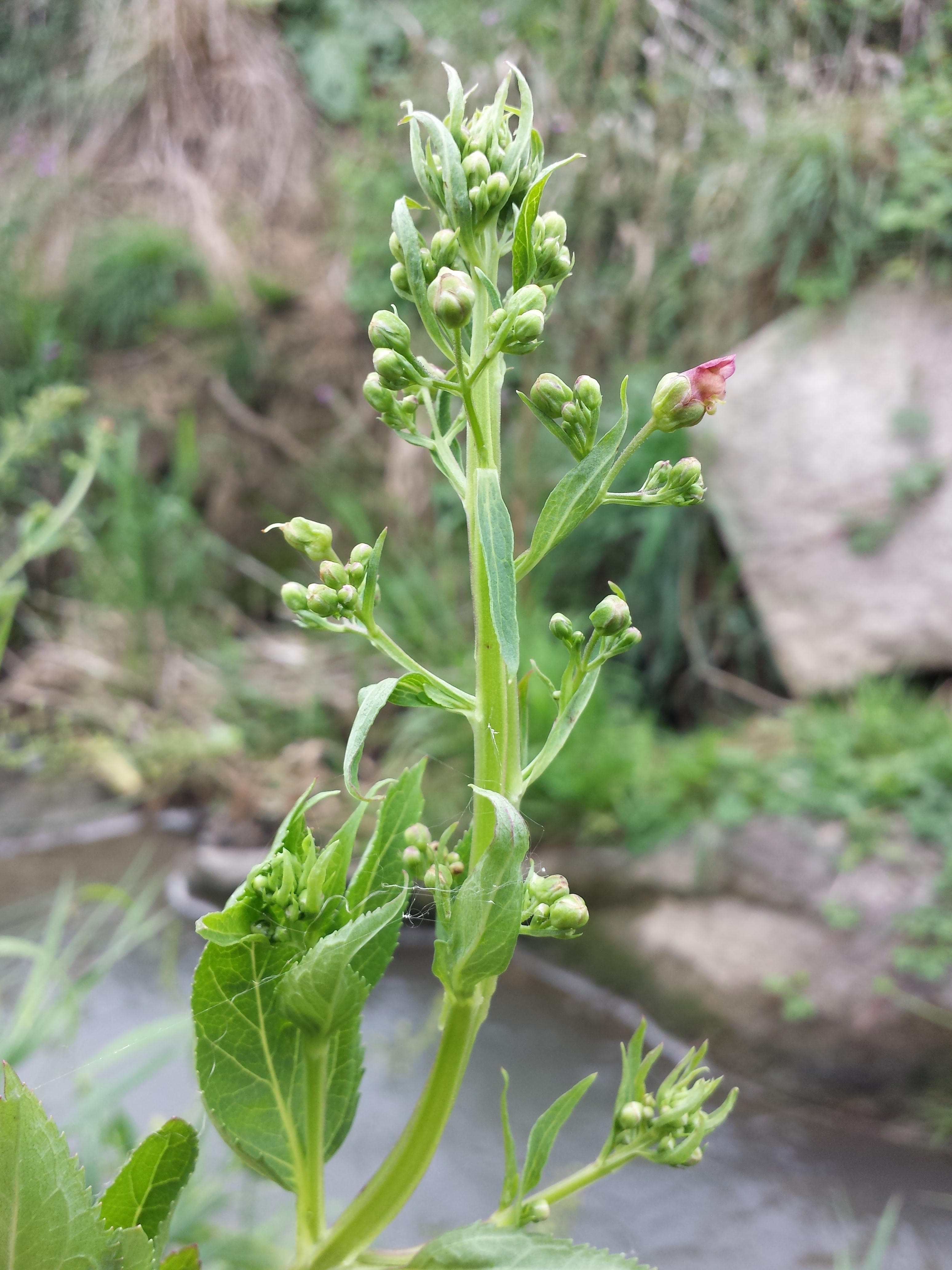 Inflorescence/infructescence Taxonym: Scrophularia umbrosa ss Fischer et al. EfÖLS 2008 ISBN 978-3-85474-187-9 Location: near Bruderndorf, district Korneuburg, Lower Austria - ca. 225 m a.s.l. Habitat: slope of a stream